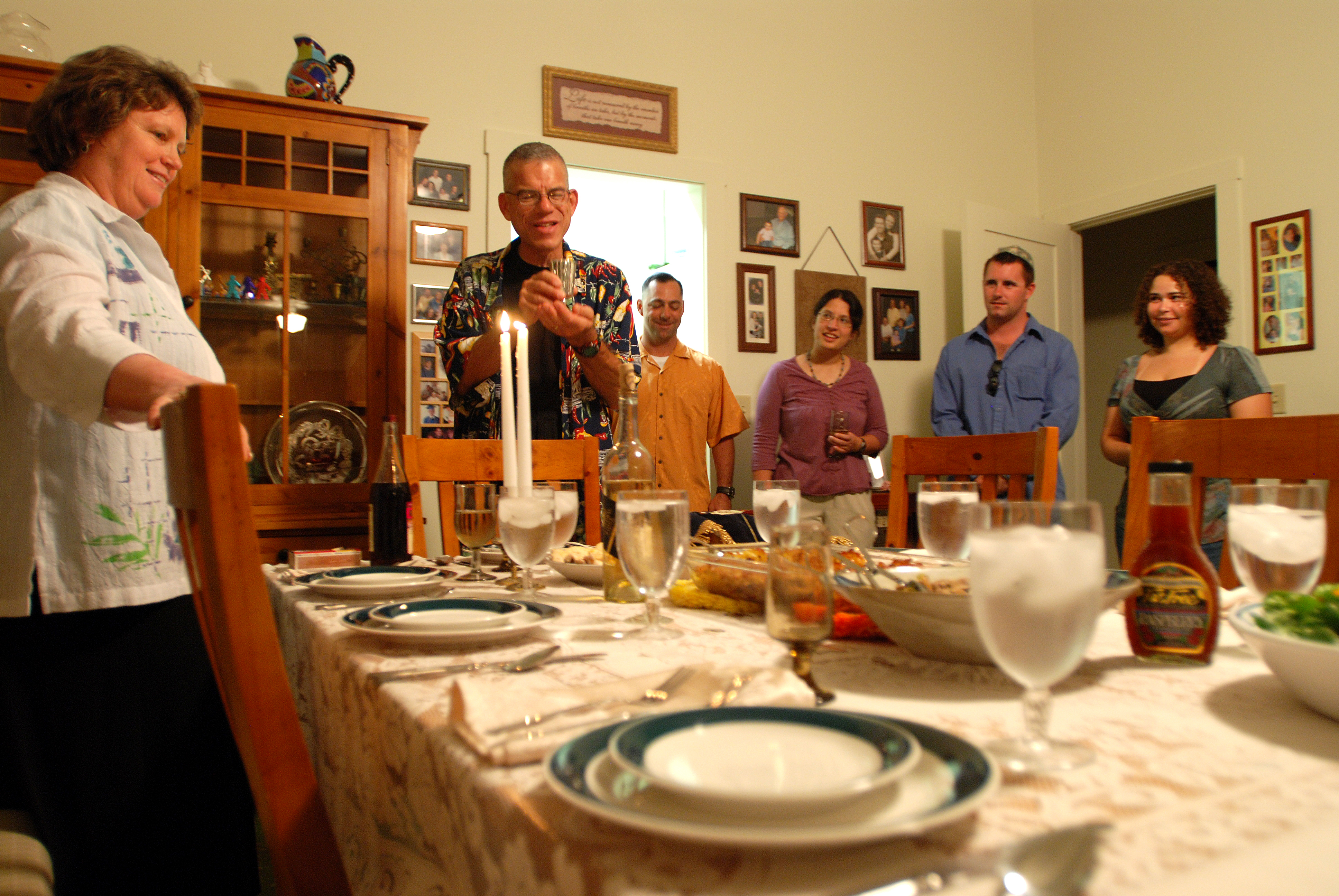 Navy Chaplain Rabbi Seth Phillips prays over the Kos L'Kiddush, or Kiddush cup, before a Shabbat dinner at the U.S. Naval Station Guantanamo Bay residence of Jeff and Kathy Einhorn, Sept. 26, 2008. Phillips, a chaplain stationed at Naples, Italy, is visiting Guantanamo Bay for a week to help celebrate Rosh Hashanah, the Jewish New Year which began, Sept. 29, 2008. JTF Guantanamo conducts safe, humane, legal and transparent care and custody of detained enemy combatants, including those convicted by military commission and those ordered released. The JTF conducts intelligence collection, analysis and dissemination for the protection of detainees and personnel working in JTF Guantanamo facilities and in support of the Global War on Terror. JTF Guantanamo provides support to the Office of Military Commissions, to law enforcement and to war crimes investigations. The JTF conducts planning for and, on order, responds to Caribbean mass migration operations.